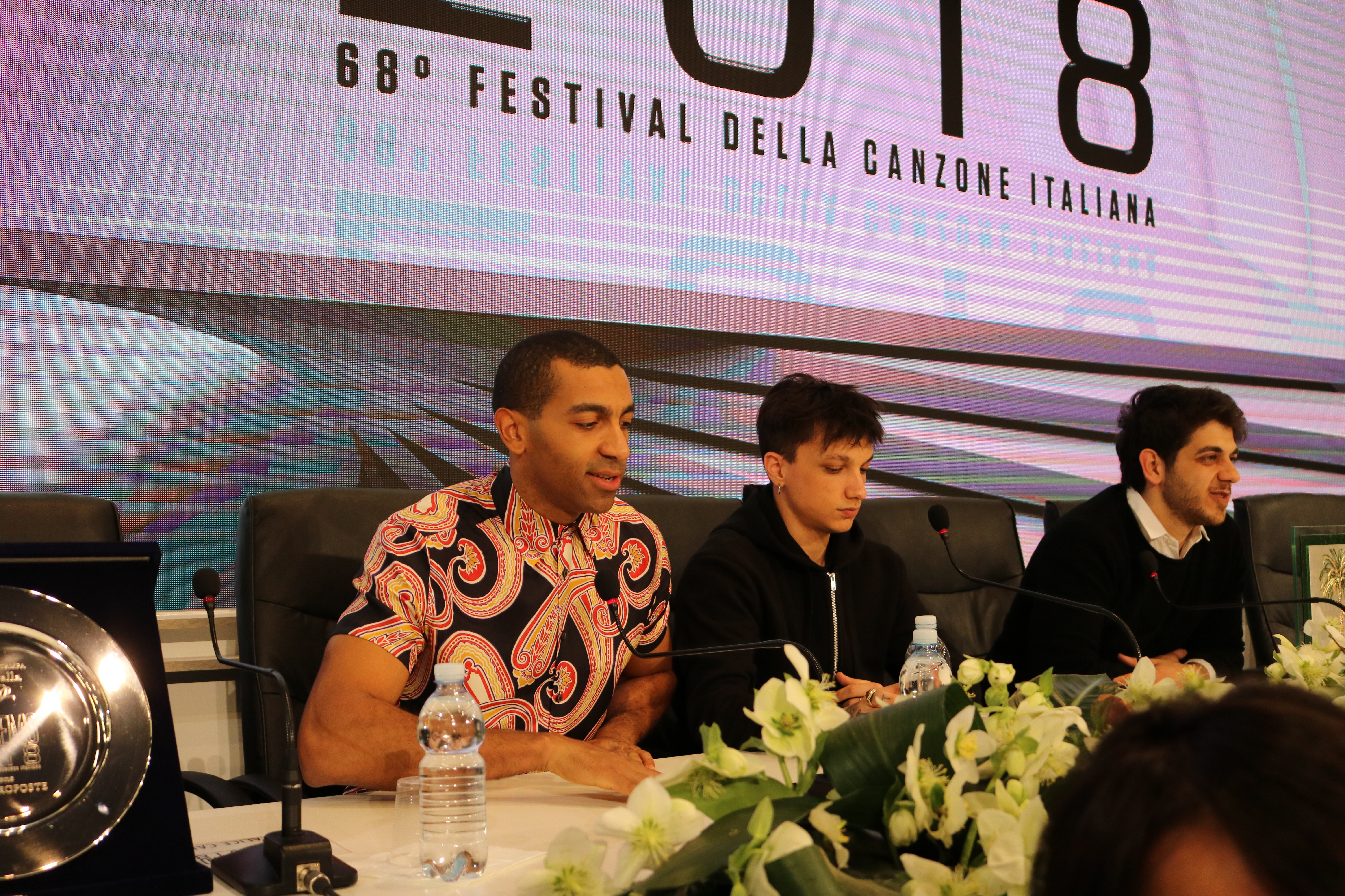 Sanremo Giovane